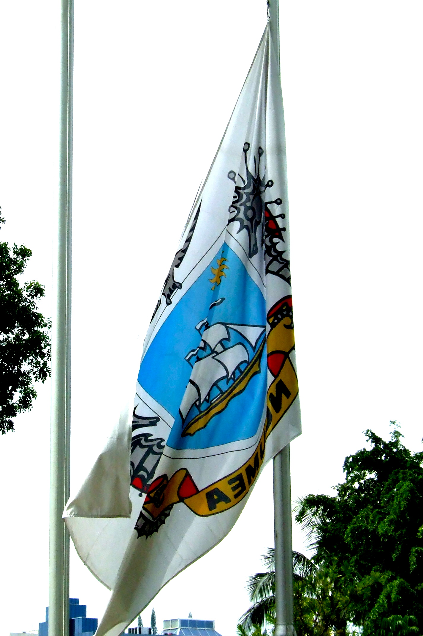 Flag of the city of Nouméa, New Caledonia, flying from a flagpole in front of the Nouméa city hall. Other information Photo by George Garrigues